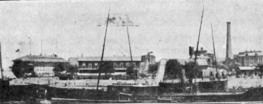 The United States Navy patrol yacht USS Sylvia while out of commission and in service with the Pennsylvania Naval Militia